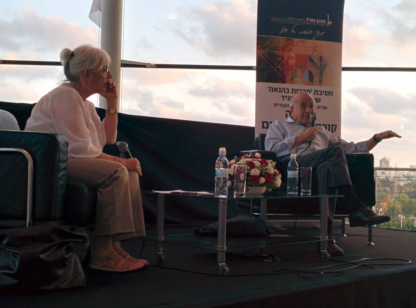 Prof. Daniel Kahneman and Prof. Maya Bar Hillel talking about Kahneman's research